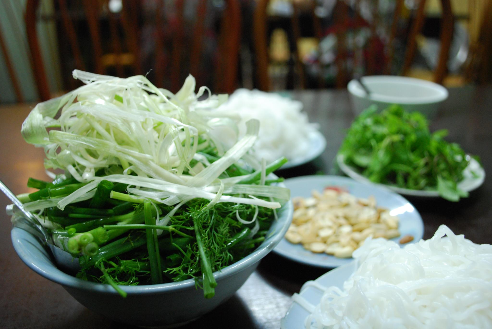 Dill, spring Onion, rice vermicelli, coriander, hot mint, peanuts in Cha Ca La Vong restaurant.